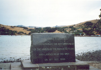 "This stone is erected to commemorate the 100th anniversary of the arrival of the French settlers who landed near this spot on 16th Aug. 1840", Akaroa, New Zealand